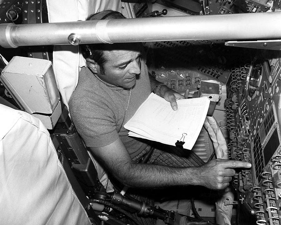 Apollo 17 Ron Evans makes a computer entry during solo operations in the Command Module Simulator